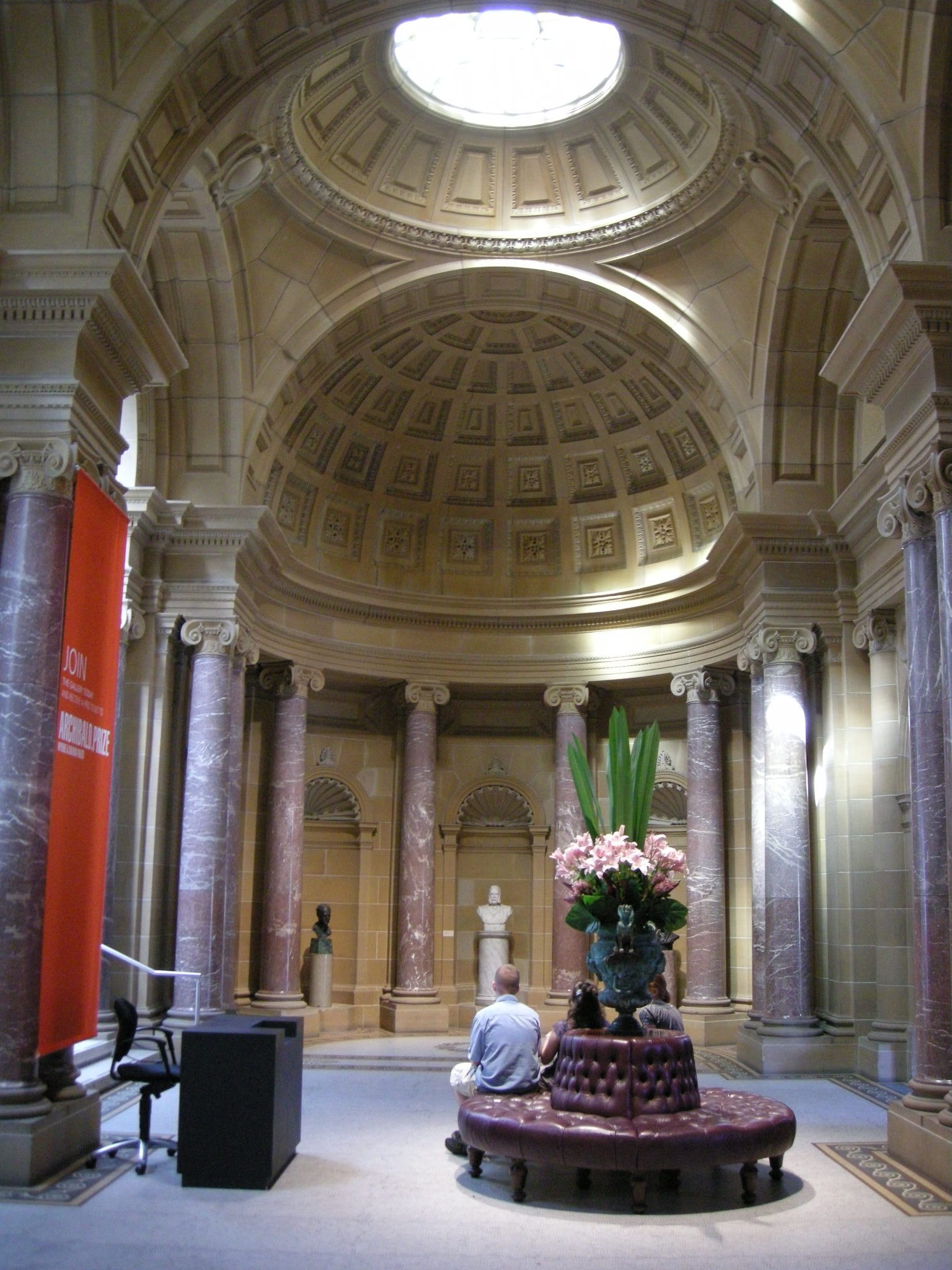 Art Gallery of New South Wales, rotonda